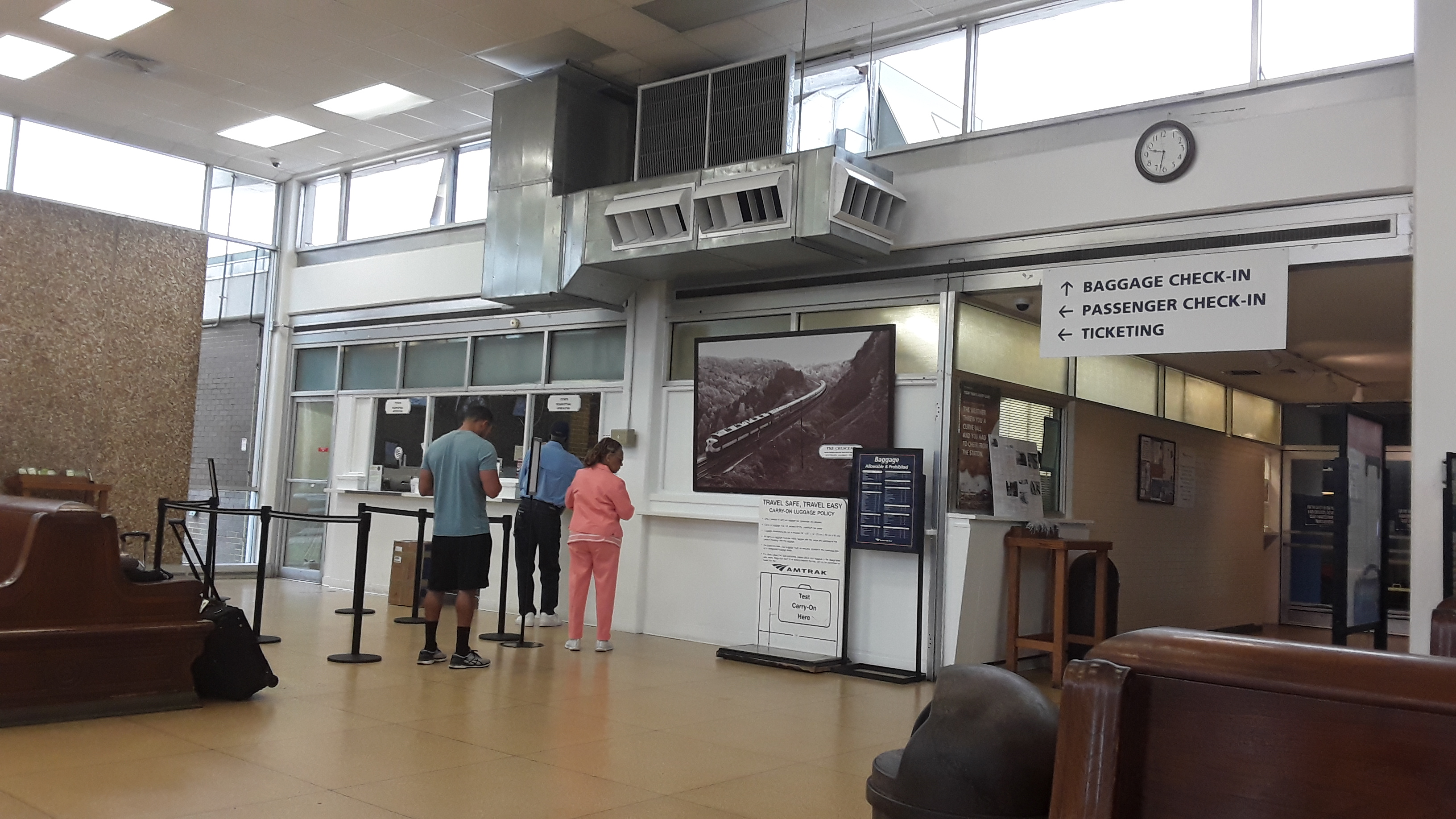 Inside the waiting room of the Charlotte Amtrak station in 2019